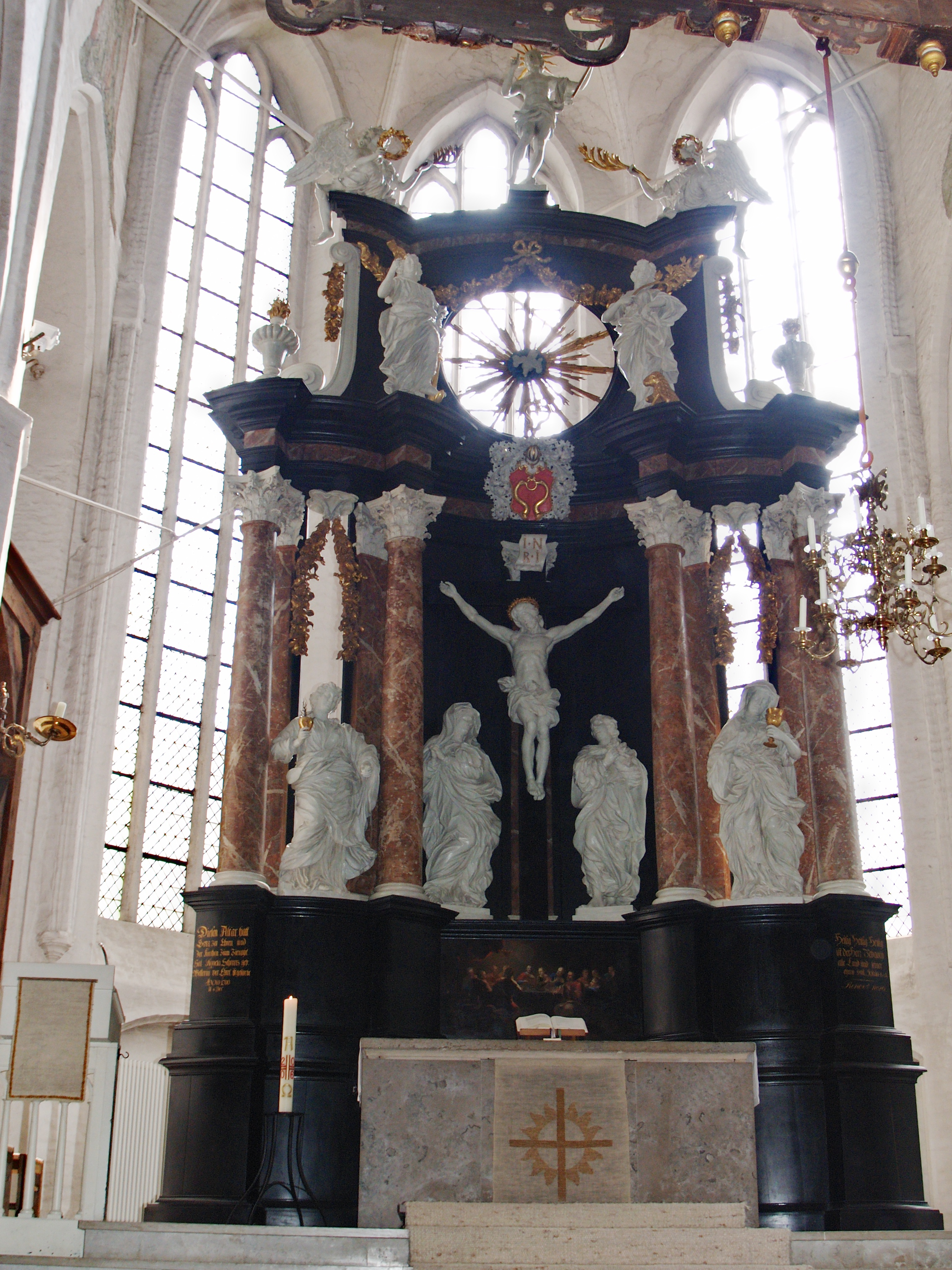 St. Aegidien at Luebeck, Germany, the altar